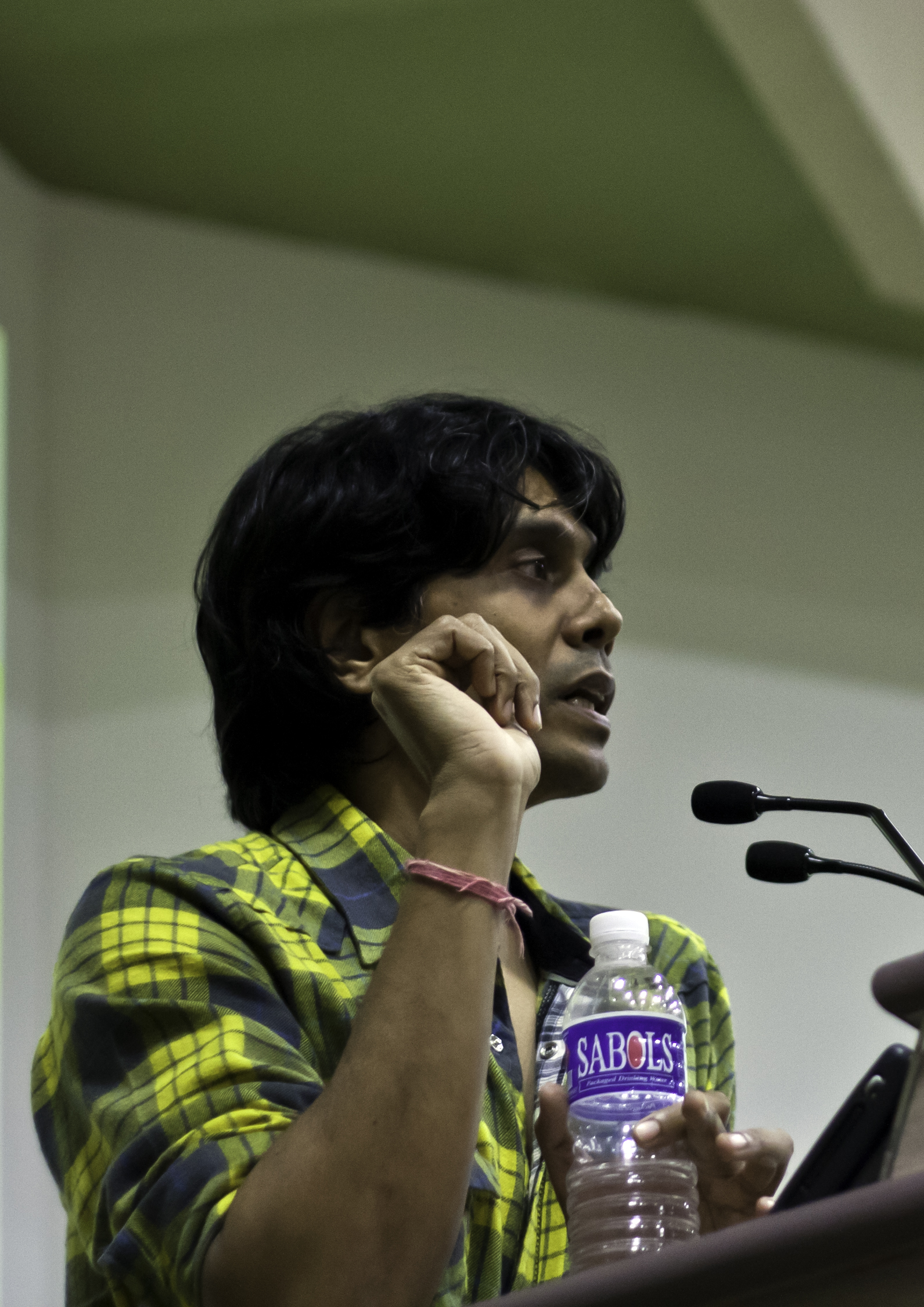 Nagesh Kukunoor at Saarang 2011, IIT Madras' Culfest